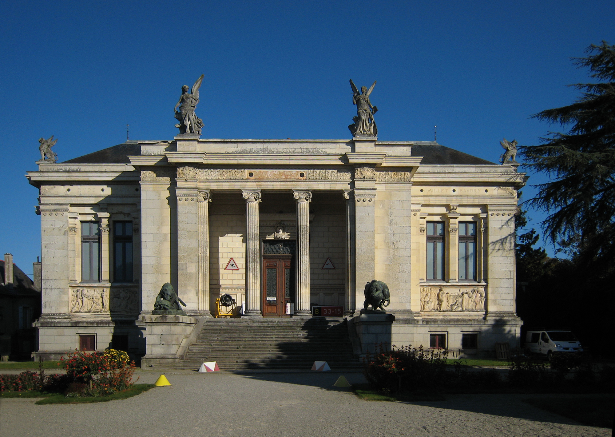 Logis du Plessis d'Argentré (18. century), now the Musée des Sciences in Laval (Mayenne)